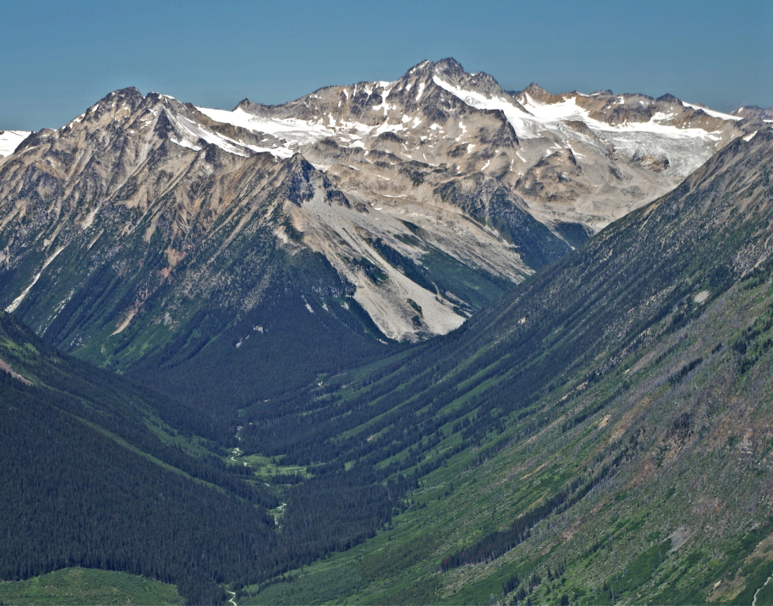 East aspect of Mount Thiassi as seen from Grouty Peak in BC Canada